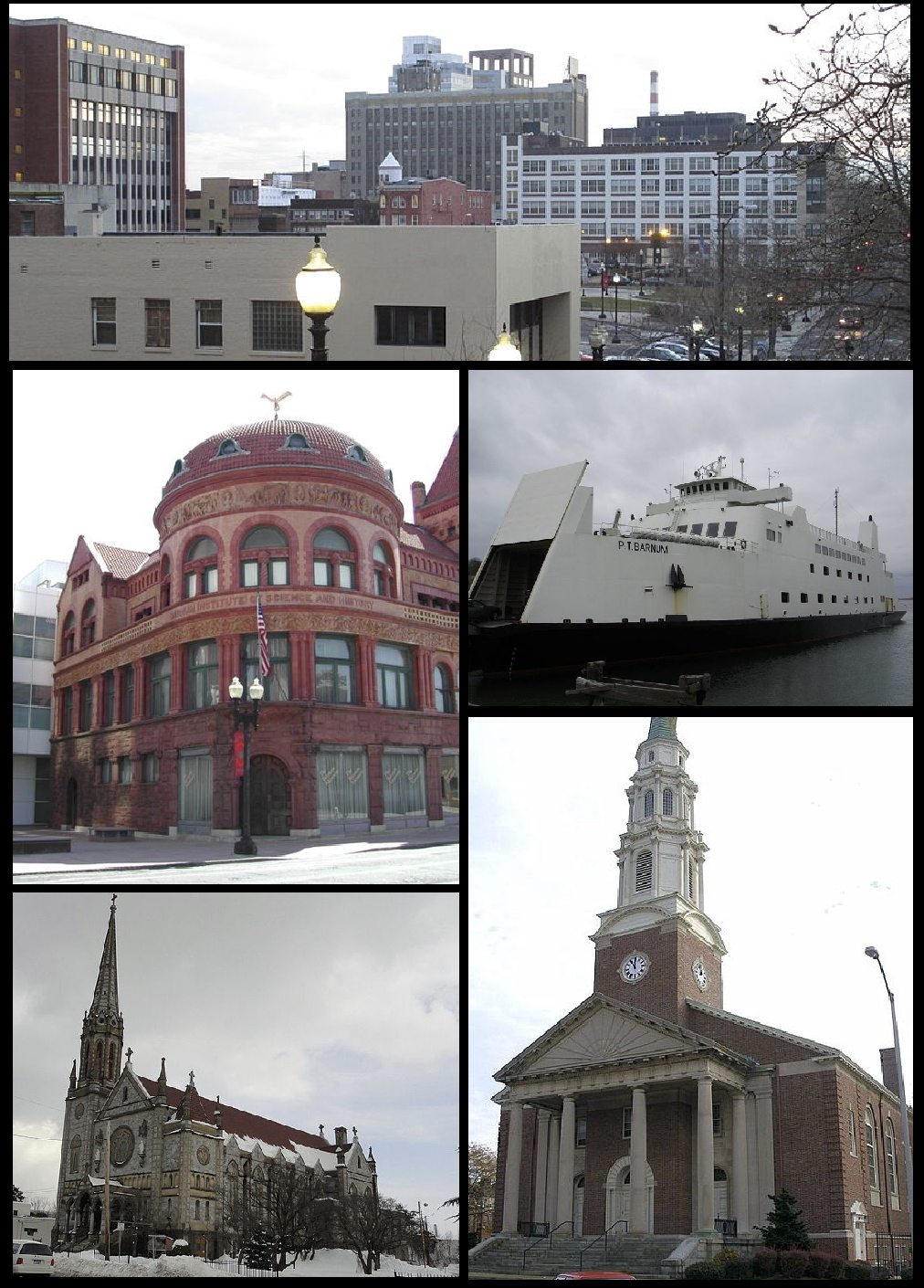 Photographic montage of Bridgeport Connecticut, showing clockwise from top Downtown Bridgeport, the Bridgeport-Port Jefferson Ferry, the United Congregational Church, St Patricks Church, and the PT Barnum Museum